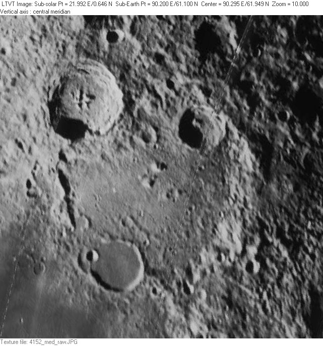 LO-IV-152M image. Bel'kovich is the large ring in the center with 87-km Hayn to its northwest. The 47-km crater just inside the northeast rim is Bel'kovich K while the 58-km crater opposite it inside the southwest rim is Bel'kovich A. On the floor of Bel'kovich A is 13-km Bel'kovich B.